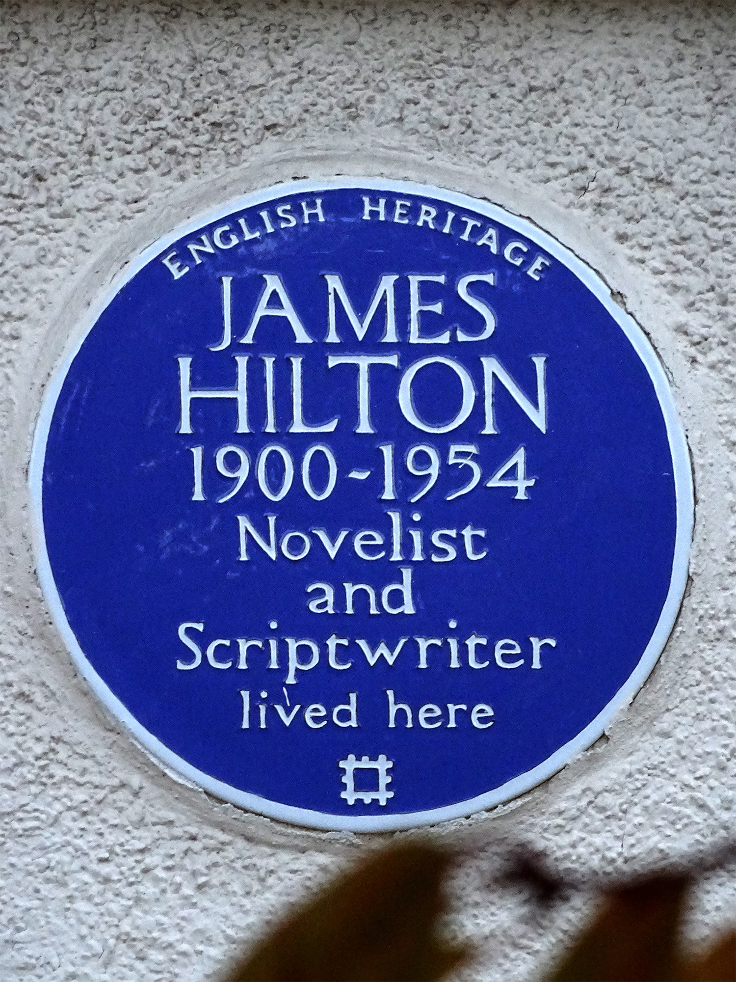 Blue plaque erected in 1997 by English Heritage at 42 Oakhill Gardens, , Woodford Green IG8 9DY, London Borough of Waltham Forest